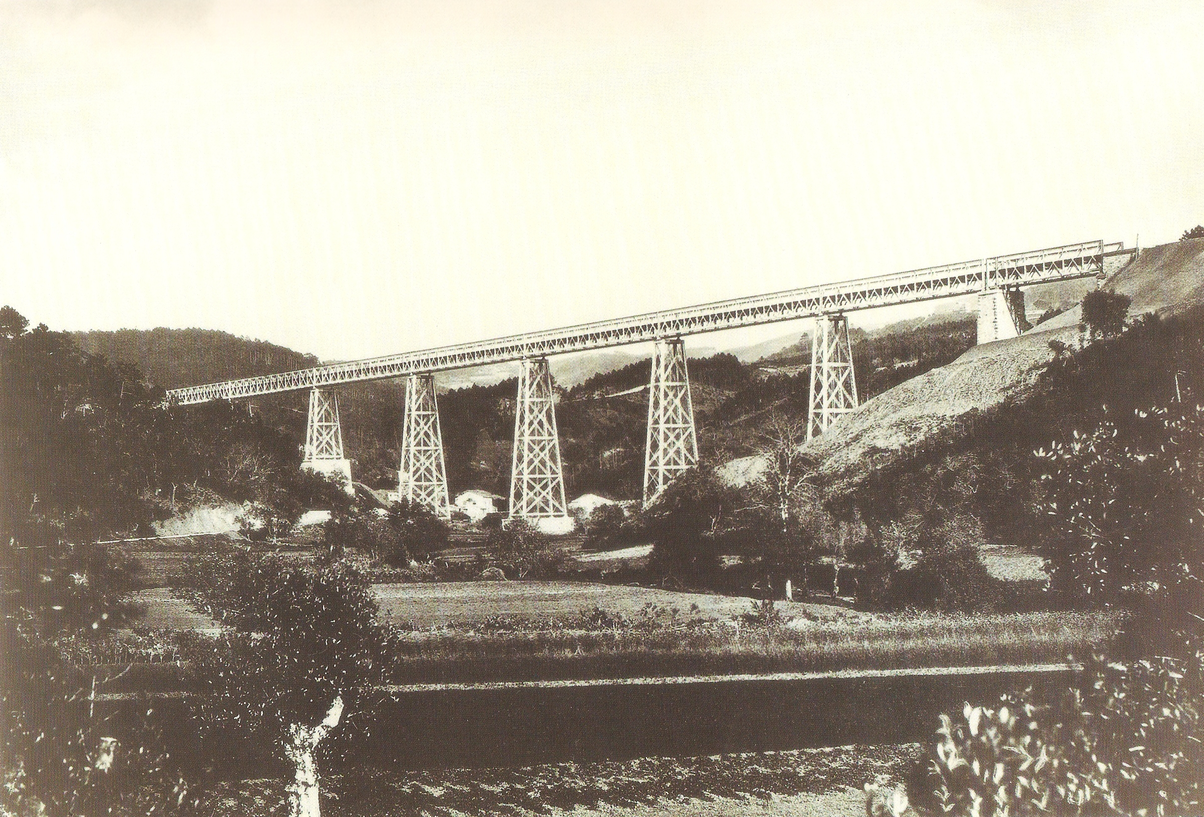 Várzeas Bridge, in the Beira Alta Railway, in Portugal.